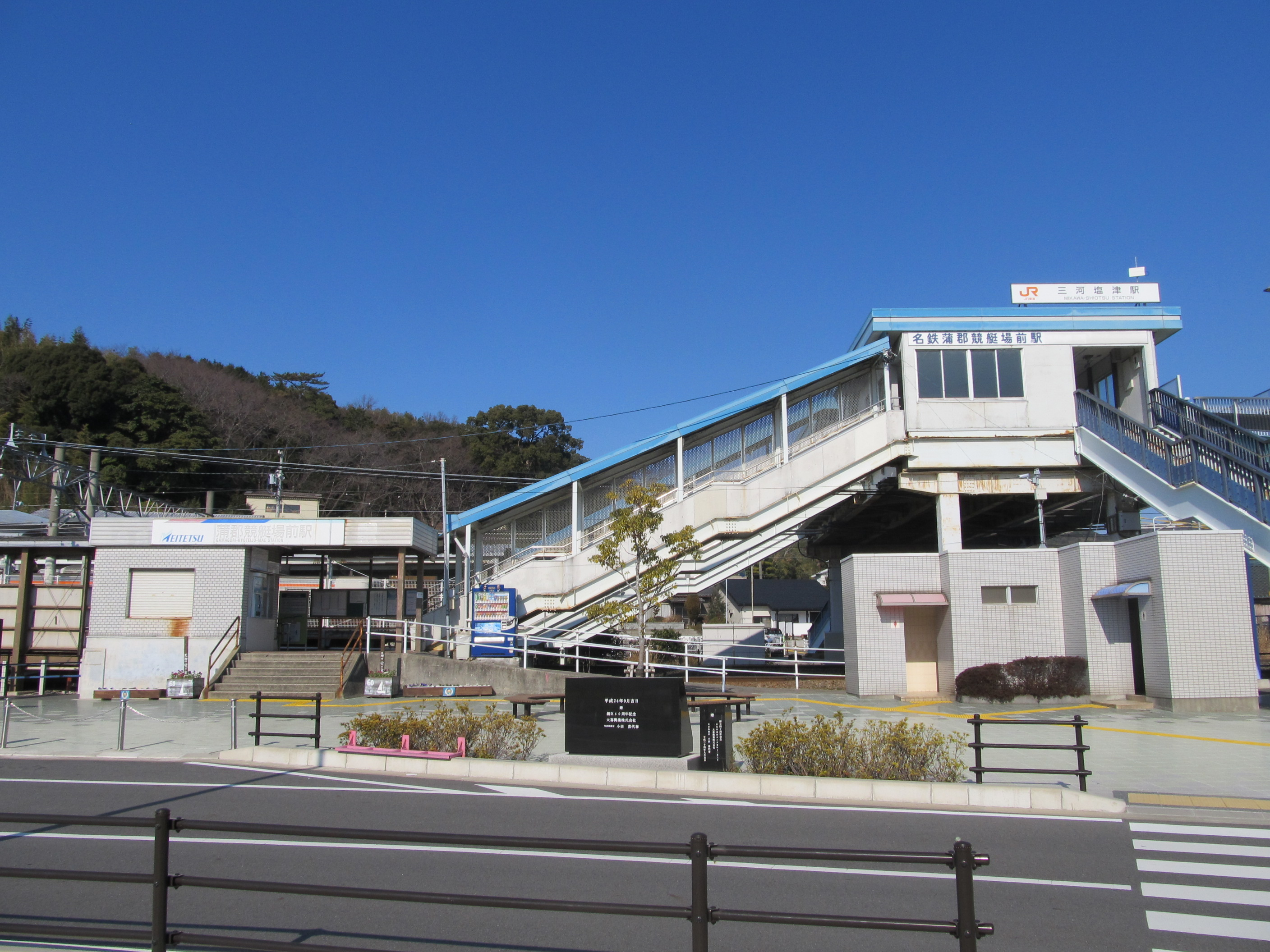 Nagoya Railroad Gamagōri Line Gamagōri-Kyōteijō-Mae Station Building